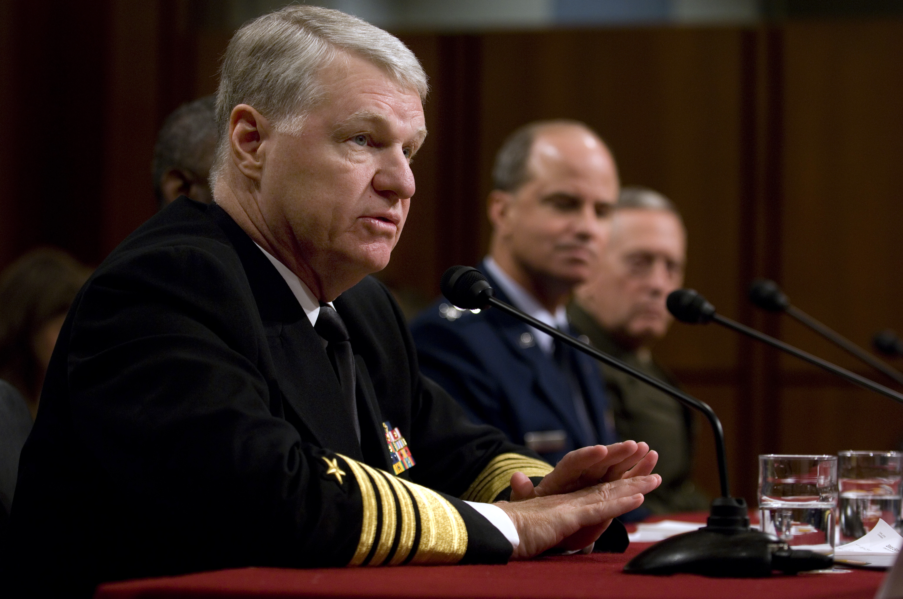 WASHINGTON - Admiral Gary Roughead, commander of U.S. Fleet Forces Command, testifies before the Committee on Armed Services during his confirmation hearing for appointment to Chief of Naval Operations.